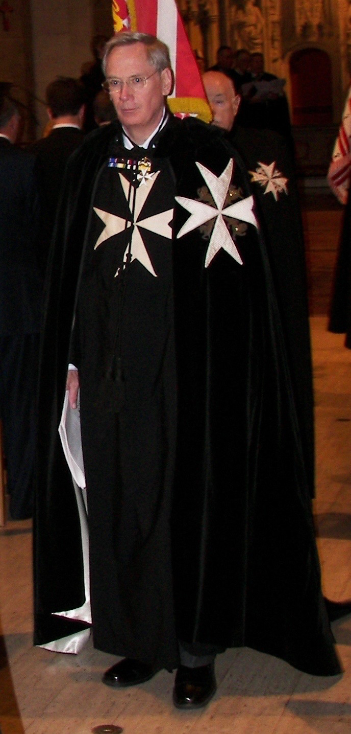 HRH Prince Richard, the Duke of Gloucester, at Christ Church Cathedral on 4 November 2006. This photograph was taken by my wife (Beth Boven) at the Investiture service of the Priory in the United States of the Most Venerable Order of the Hospital of Saint John of Jerusalem.